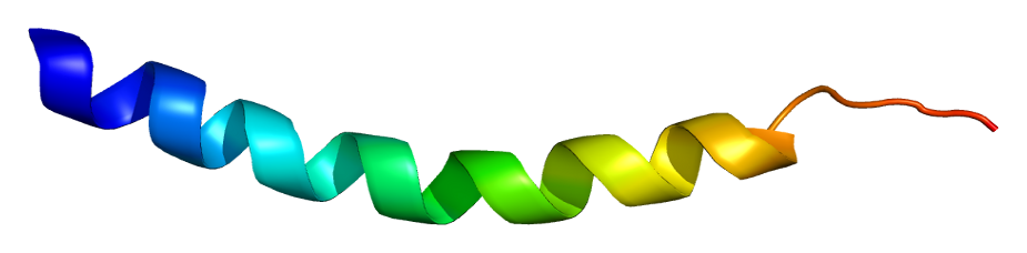 Structure of the ADRA2A protein. Based on PyMOL rendering of PDB 1hll.